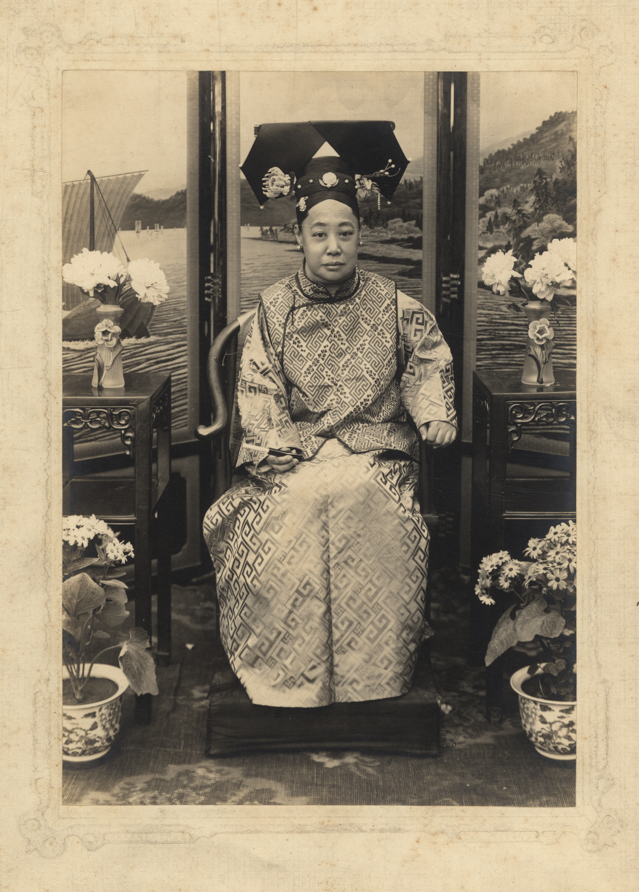 Imperial Consort Jin, a concubine of Emperor Guangxu of Qing dynasty